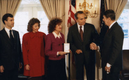 President Ronald Reagan presenting Bob Dole and Bob Michel with the Presidential Citizens Medal Ceremony. Elizabeth Dole, Robin Dole, John Hanford and Corrine Michel are also included in the photos.